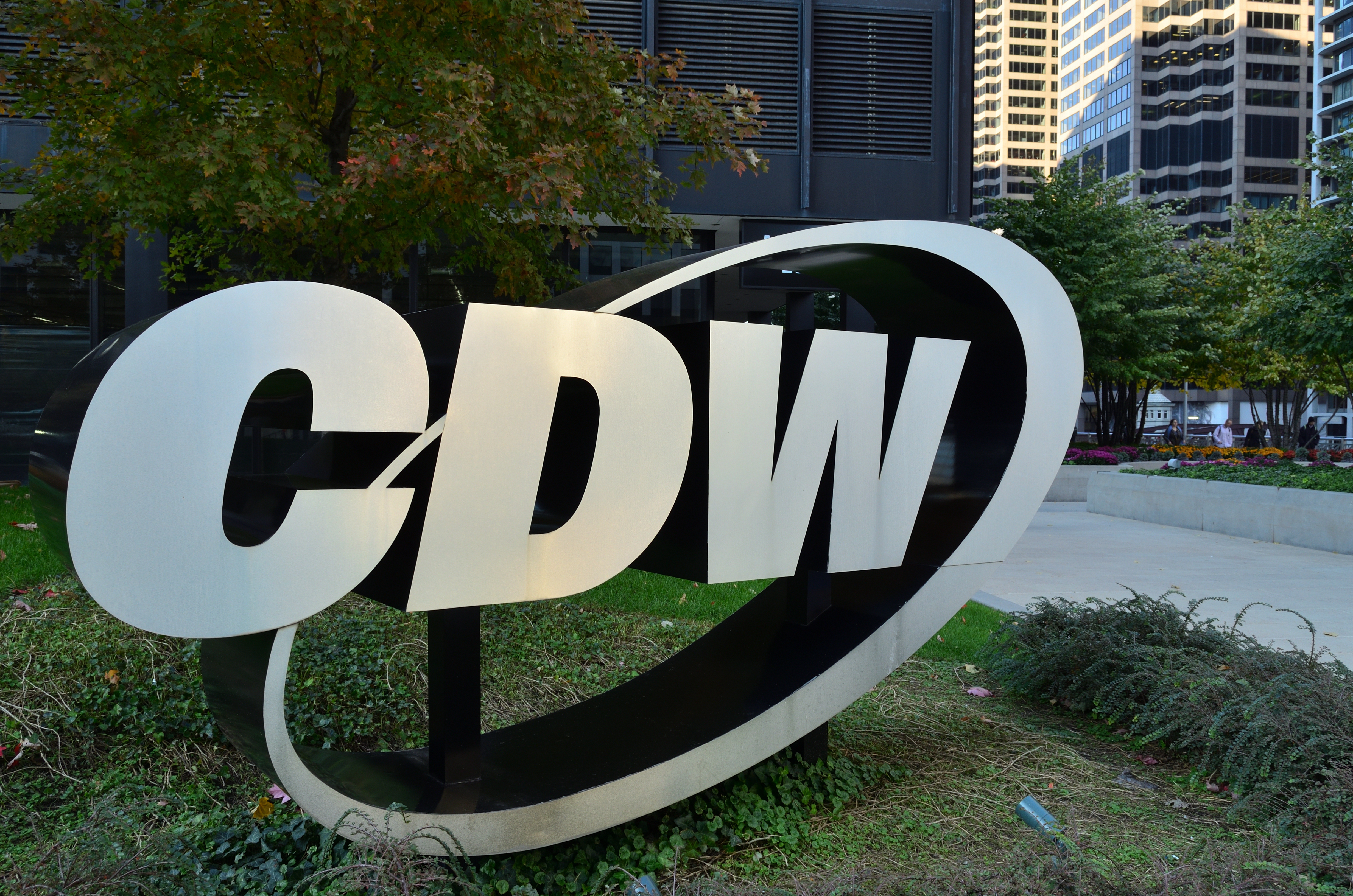 CDW in Chicago - Address: 120 S Riverside Plaza, Chicago, IL 60606, USA